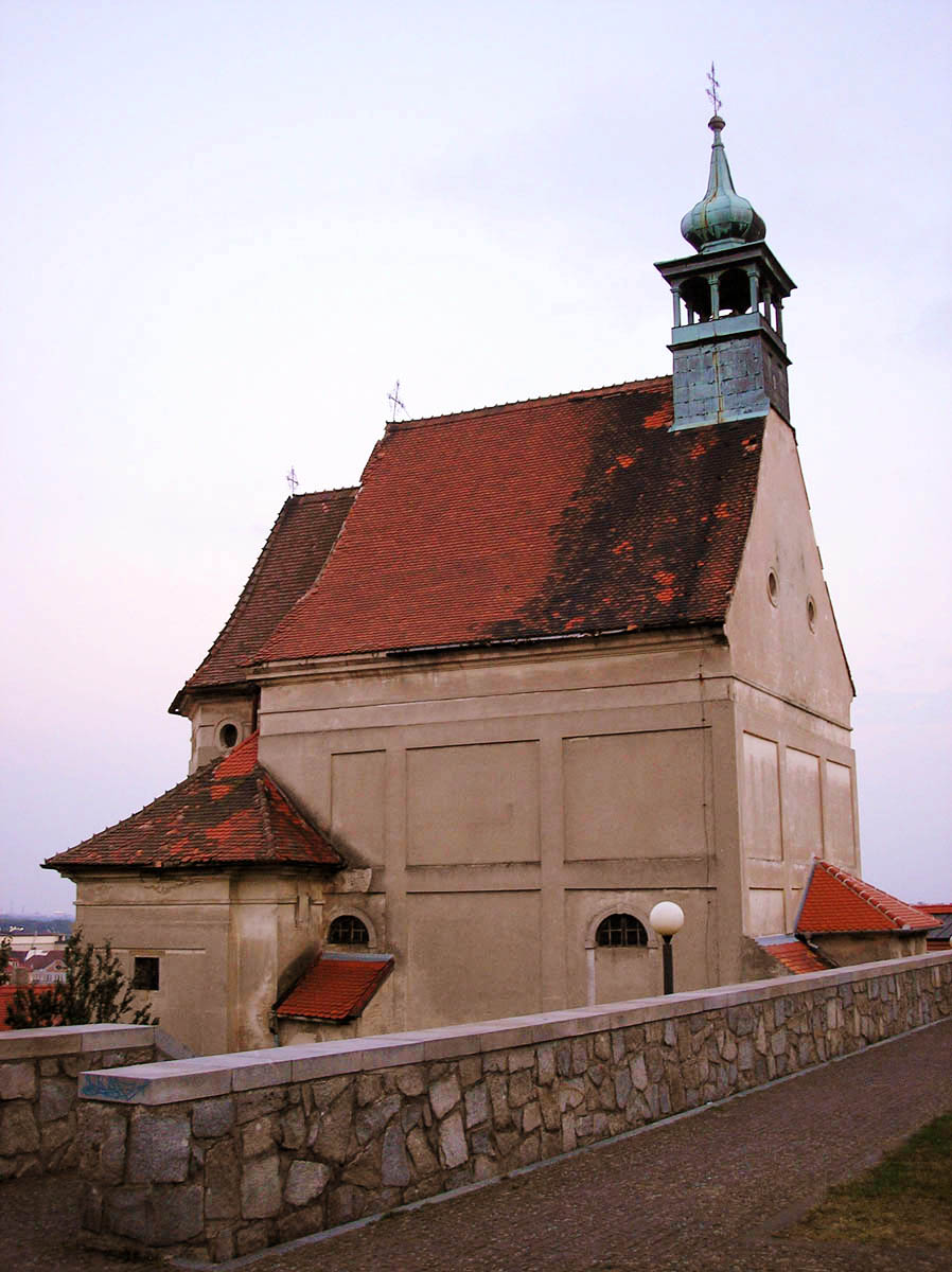 St. Nicolaush church in Bratislava, Slovakia